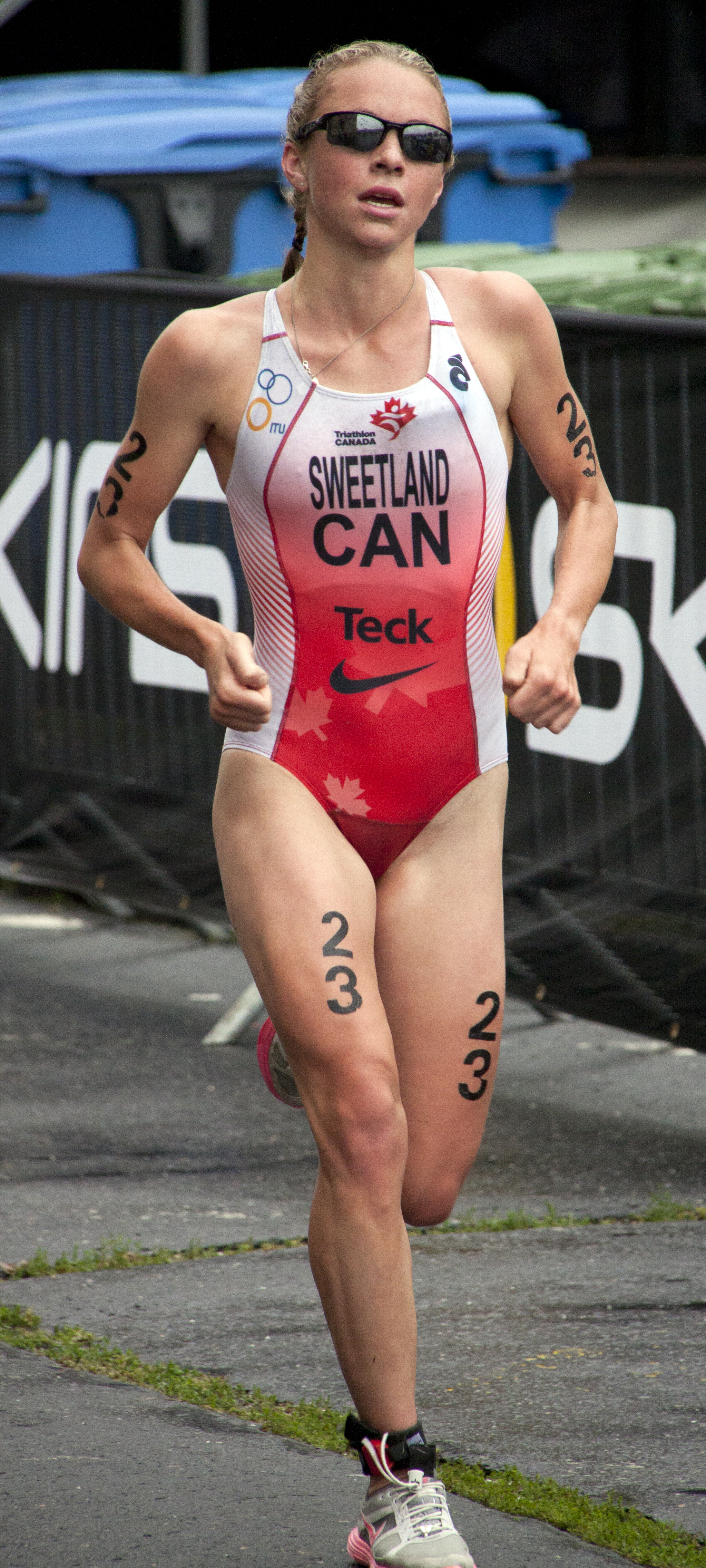 Kirsten Sweetland at the U23 Triathlon World Championships in Budapest, 2010.